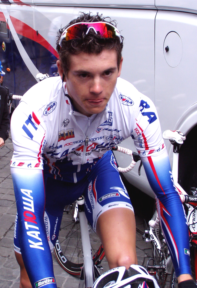 English cyclist Ben Swift